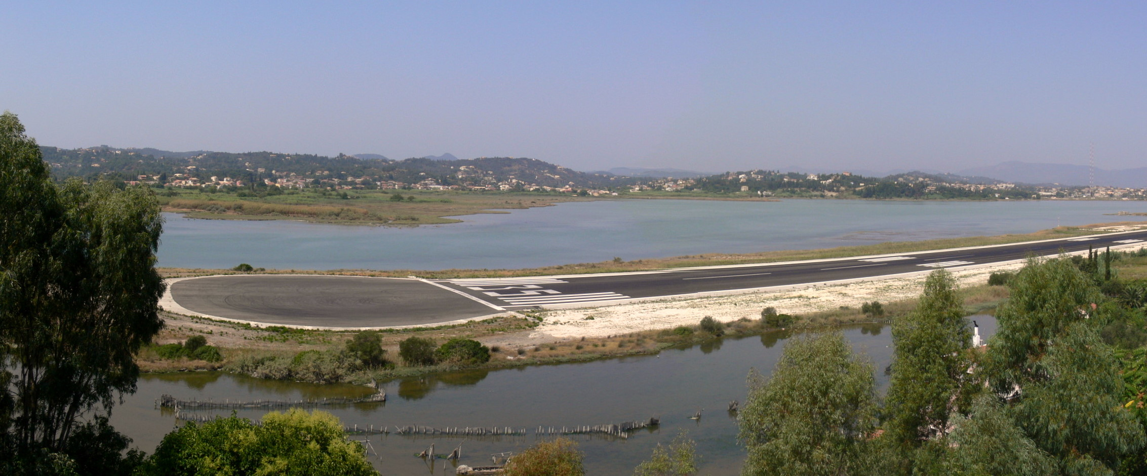 Runway in Corfu International Airport